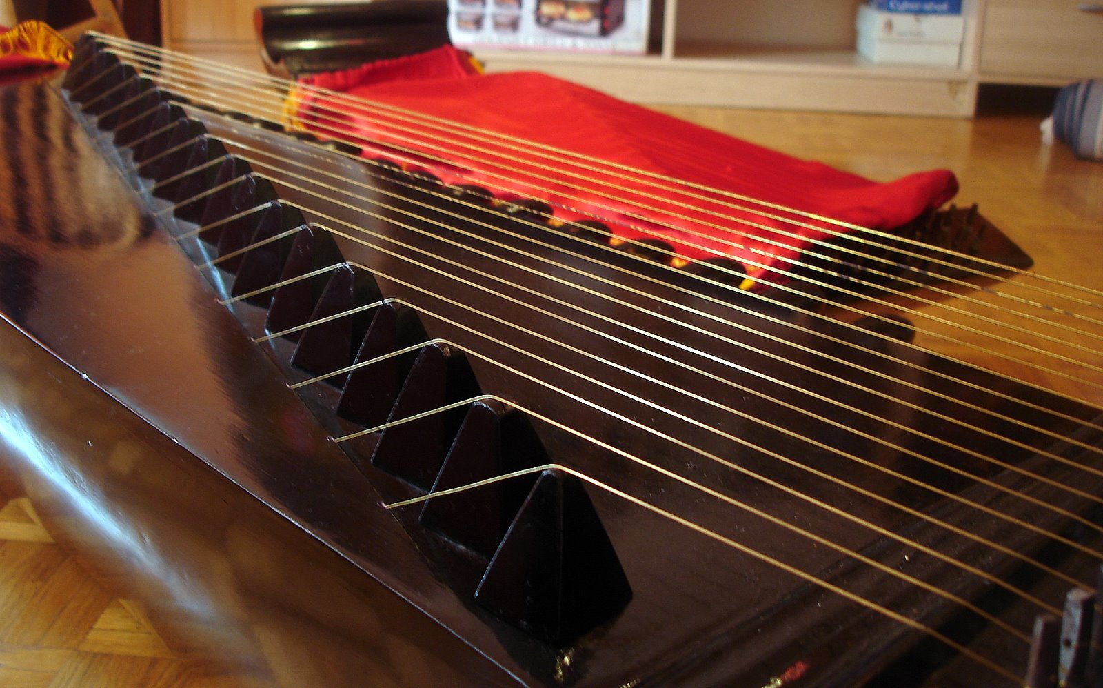 Details of pawn-bridges of Sundanese kacapi